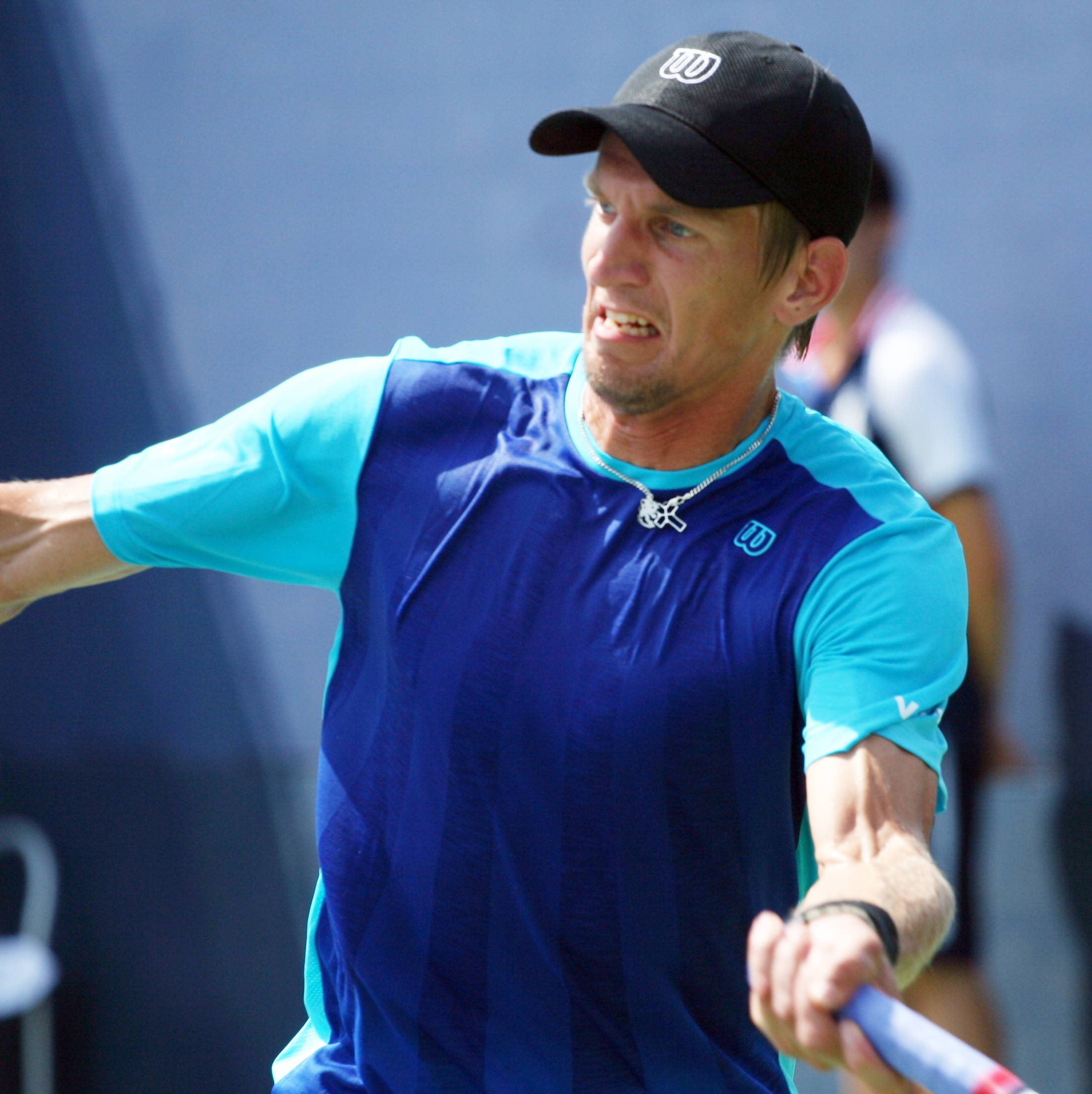 Friday, August 30